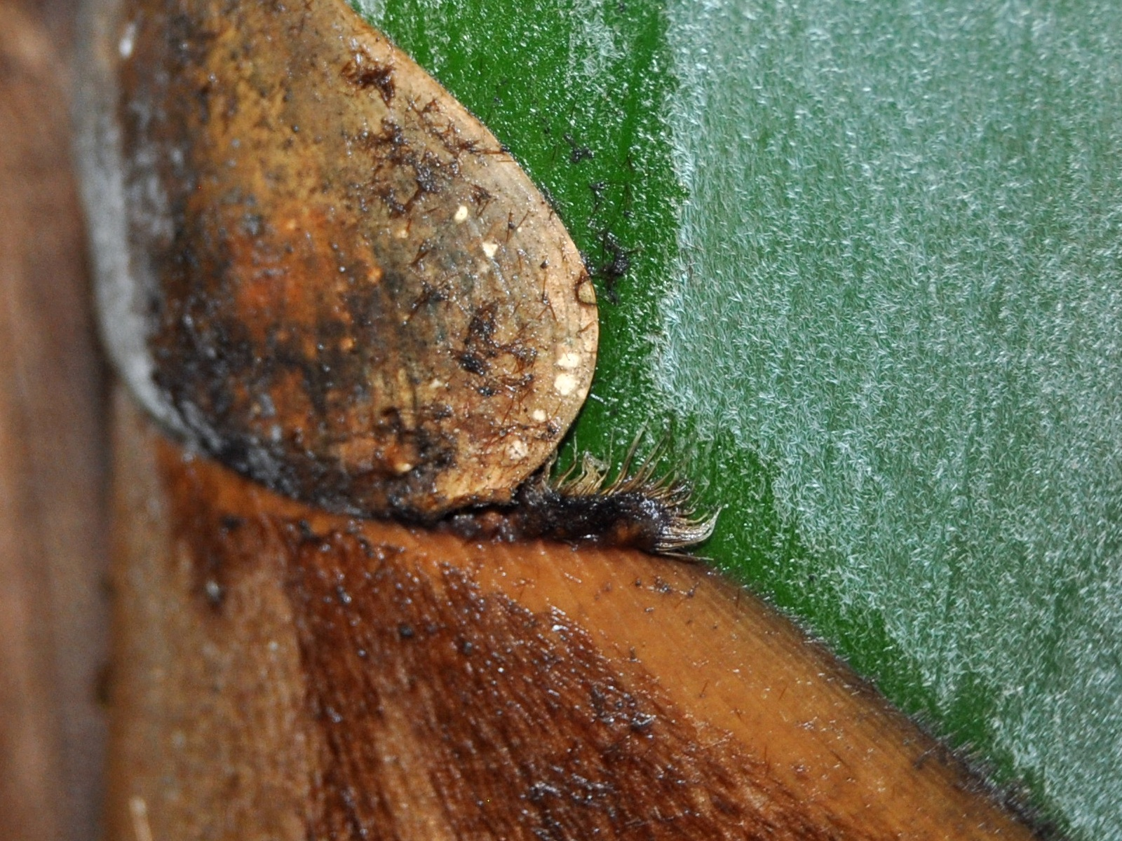 Sacred Bali bamboo, Schizostachyum brachycladum; close up culm sheath to show auricle. From Bogor, West Java, Indonesia.